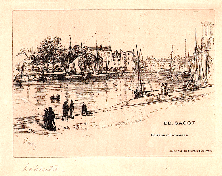 Business card for Edmond Sagot, printer dealer in Paris, 39 bis rue de Châteaudun — etching.